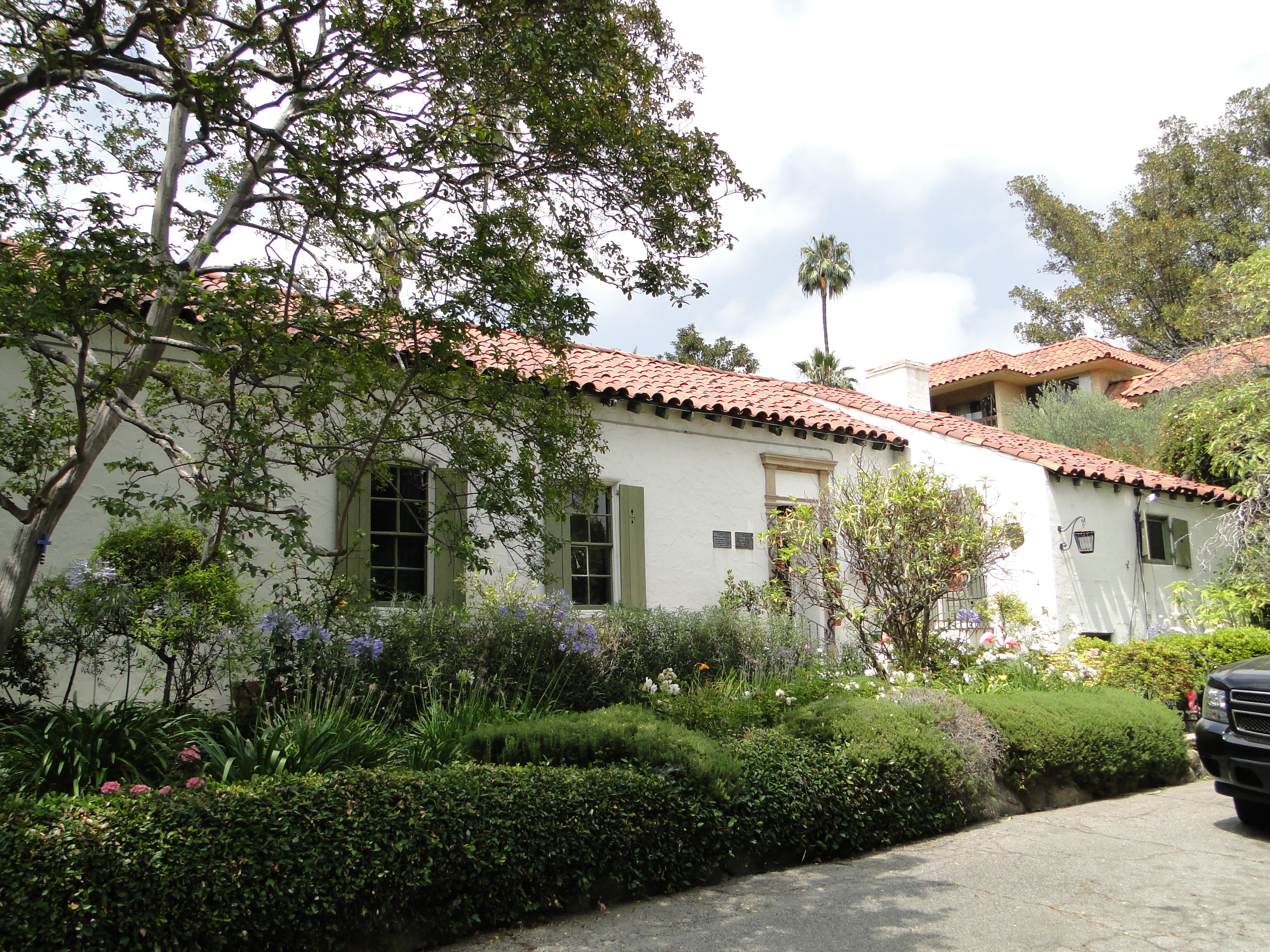 Adobe Flores, 1804 Foothill St., South Pasadena. Built c. 1839. Listed on the National Register of Historic Places.